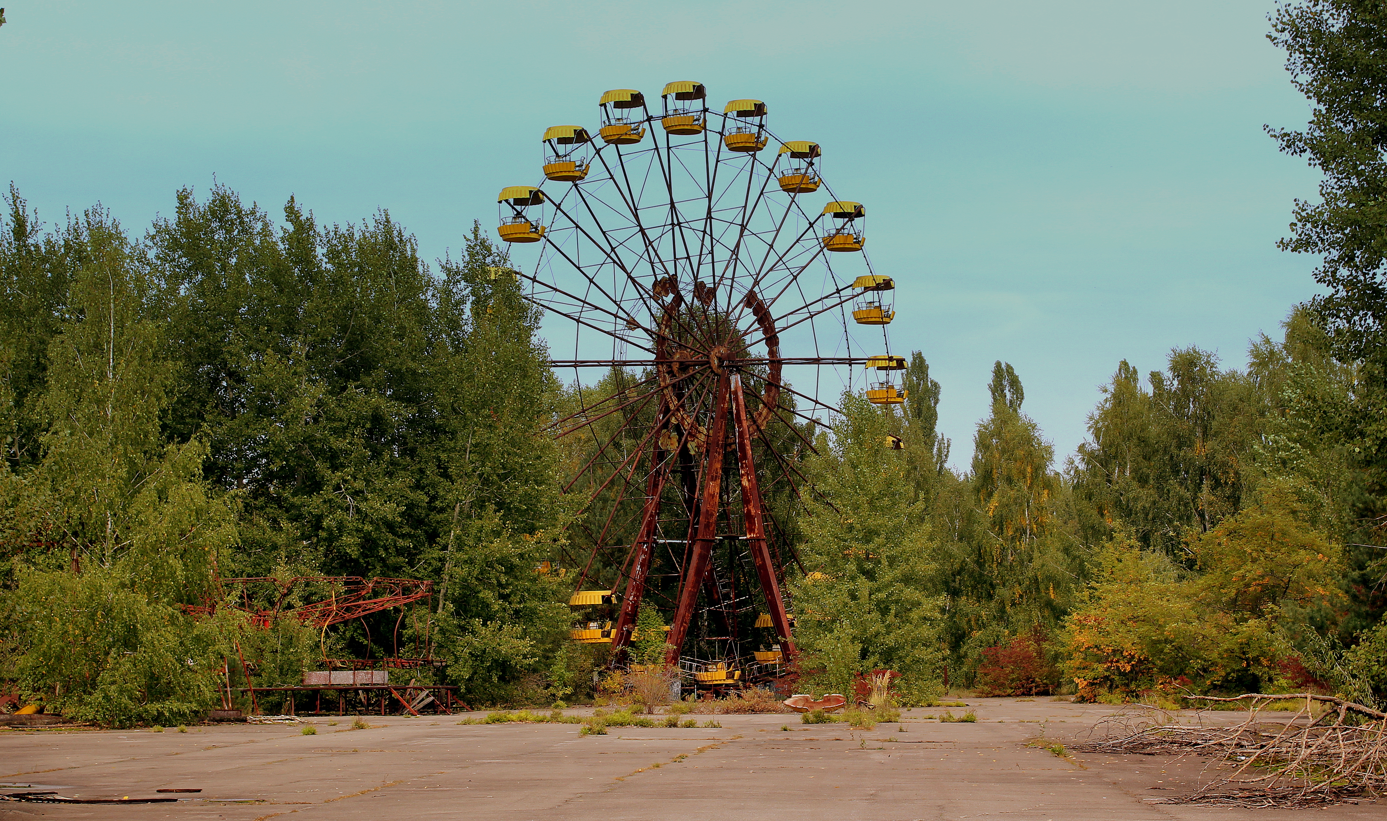 AMUSEMENT PARK AT PRIPYAT NEAR THE CHERNOBYL PLANT NOW ABANDONED UKRAINE SEP 2013